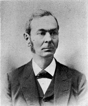 Charles Horton Peck from William Ashbrook Kellerman Ohio Mycological Bulletin